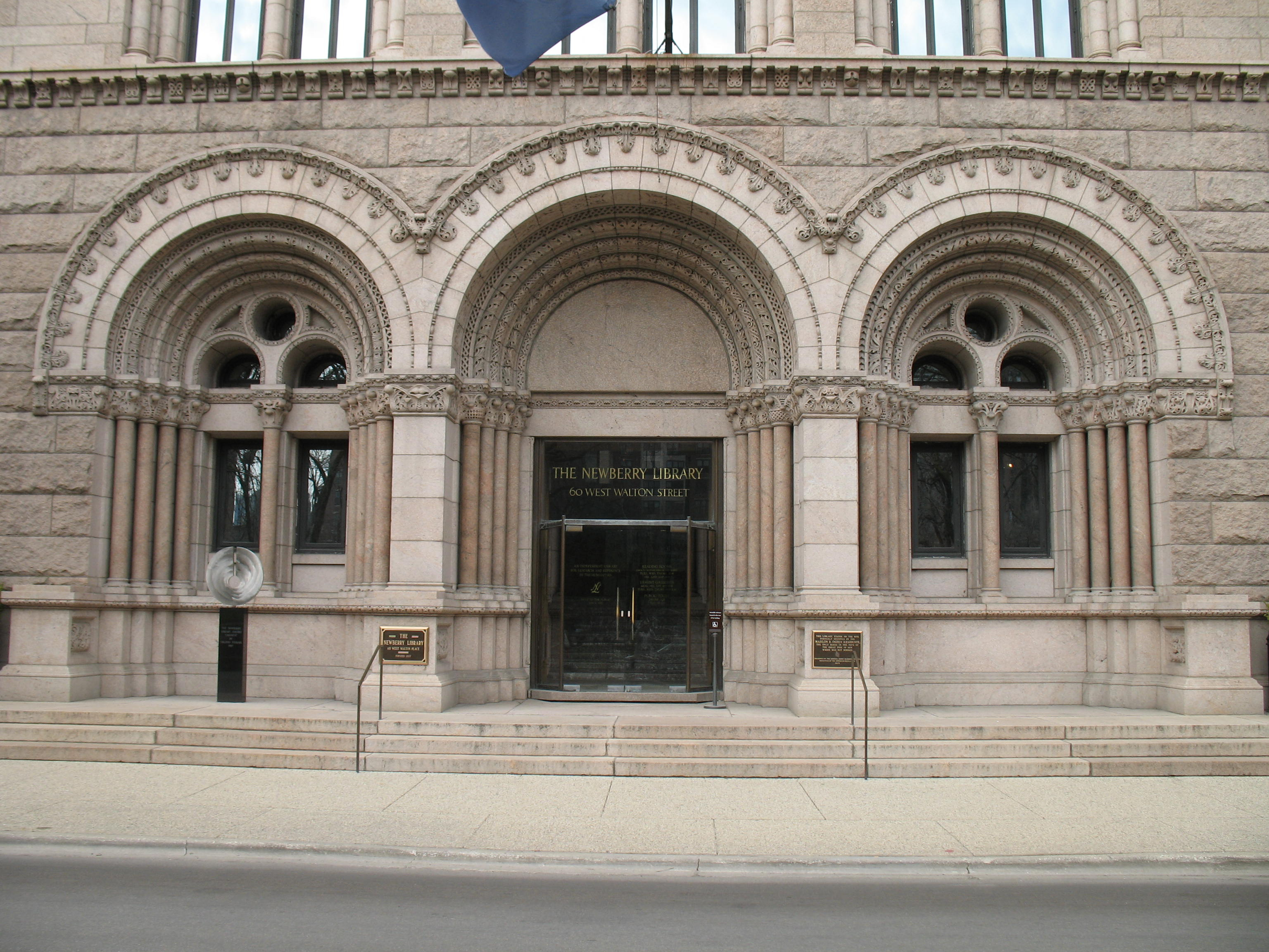 entrance of the Newberry Library